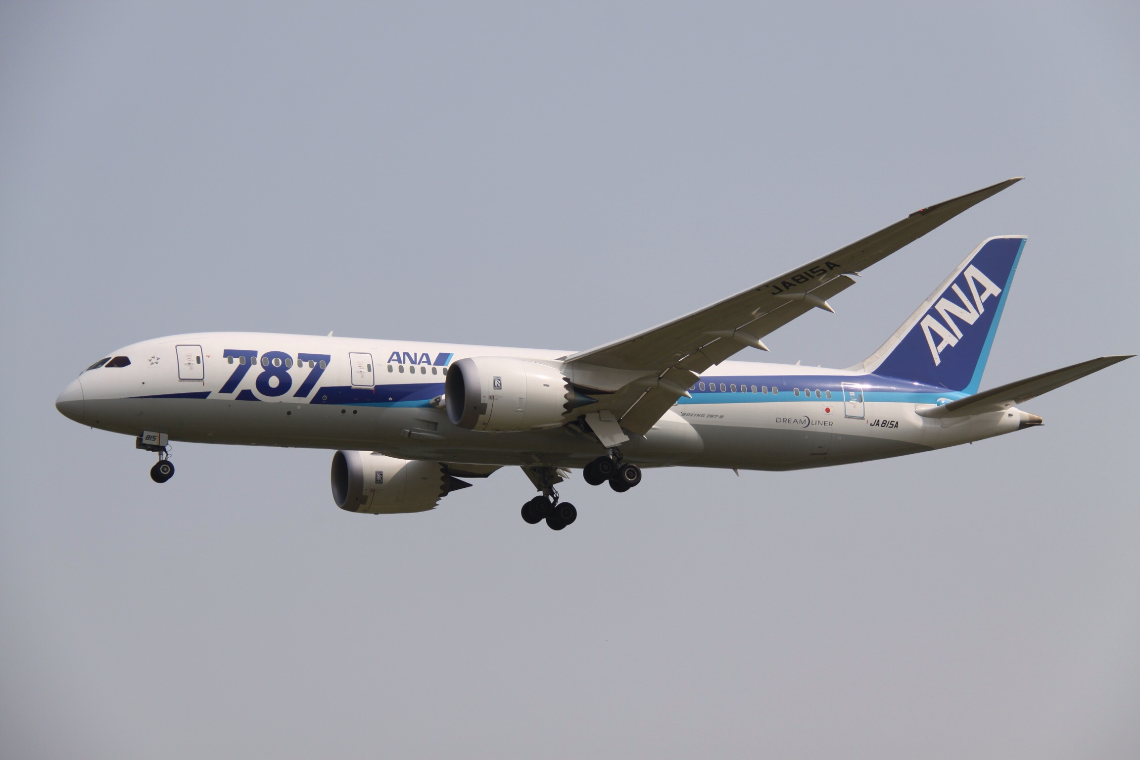 At Beijing Capital